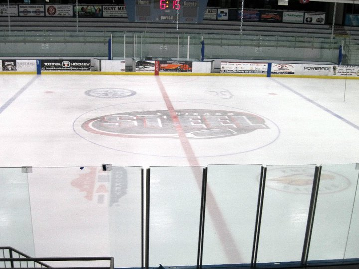 Center ice of the Edge ice Arena-Bensenville, in Bensenville IL